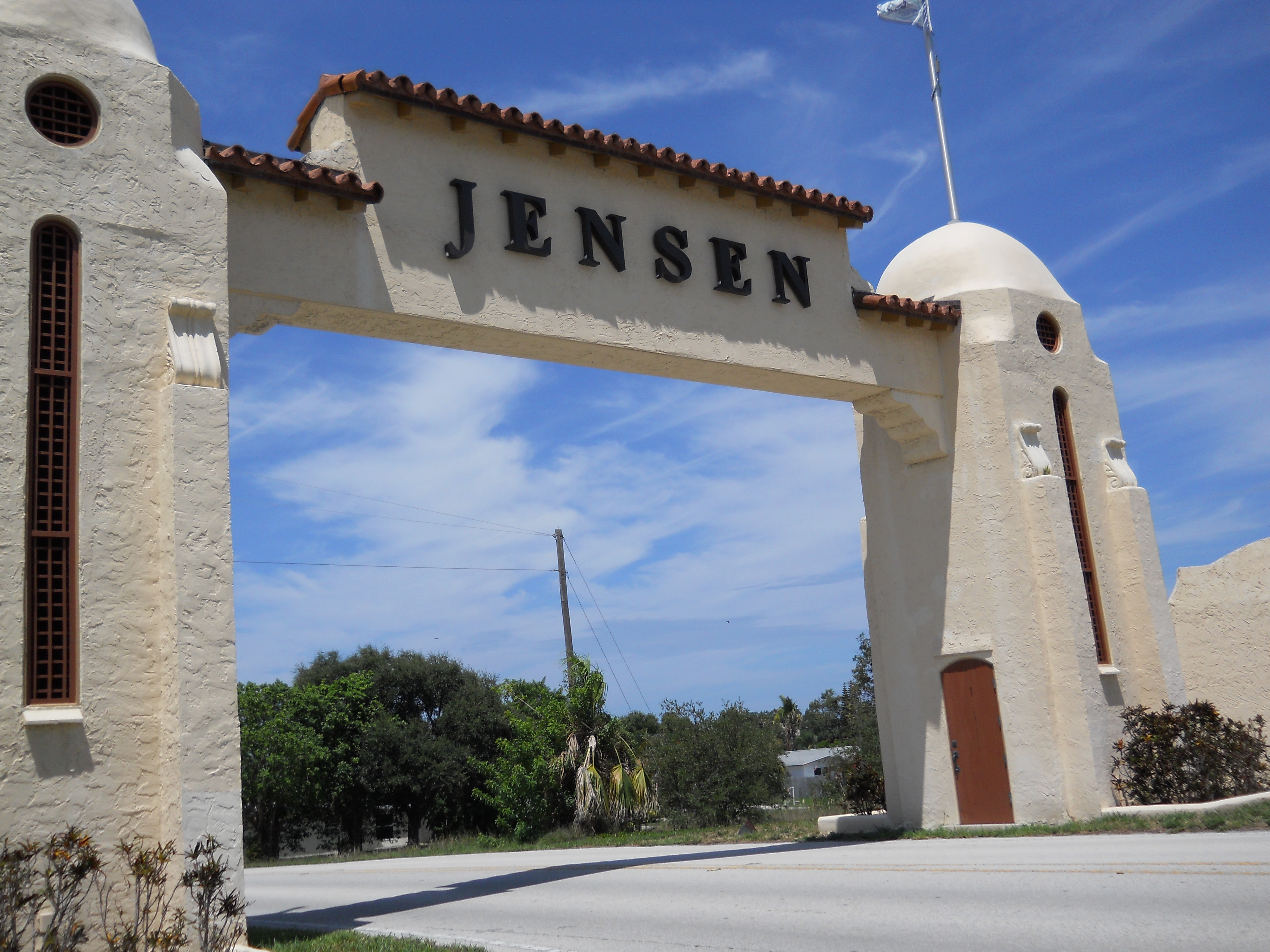 Stuart Welcome Arch on NE Dixie Highway, State Road 707, Jensen Beach, Florida: close view from the south